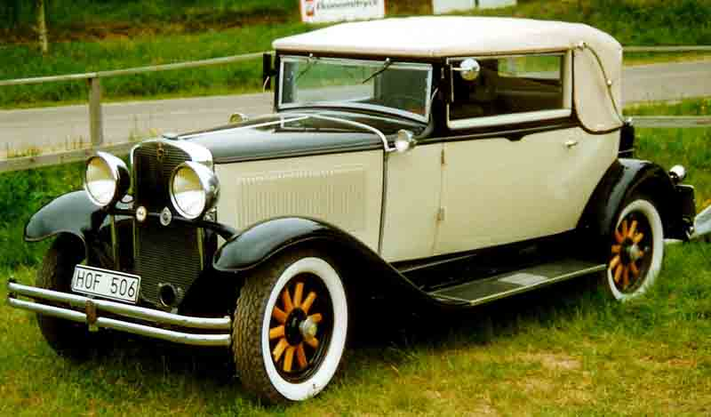 Nash Series 870 2-dr. Convertible Sedan - Model 871 (1931)